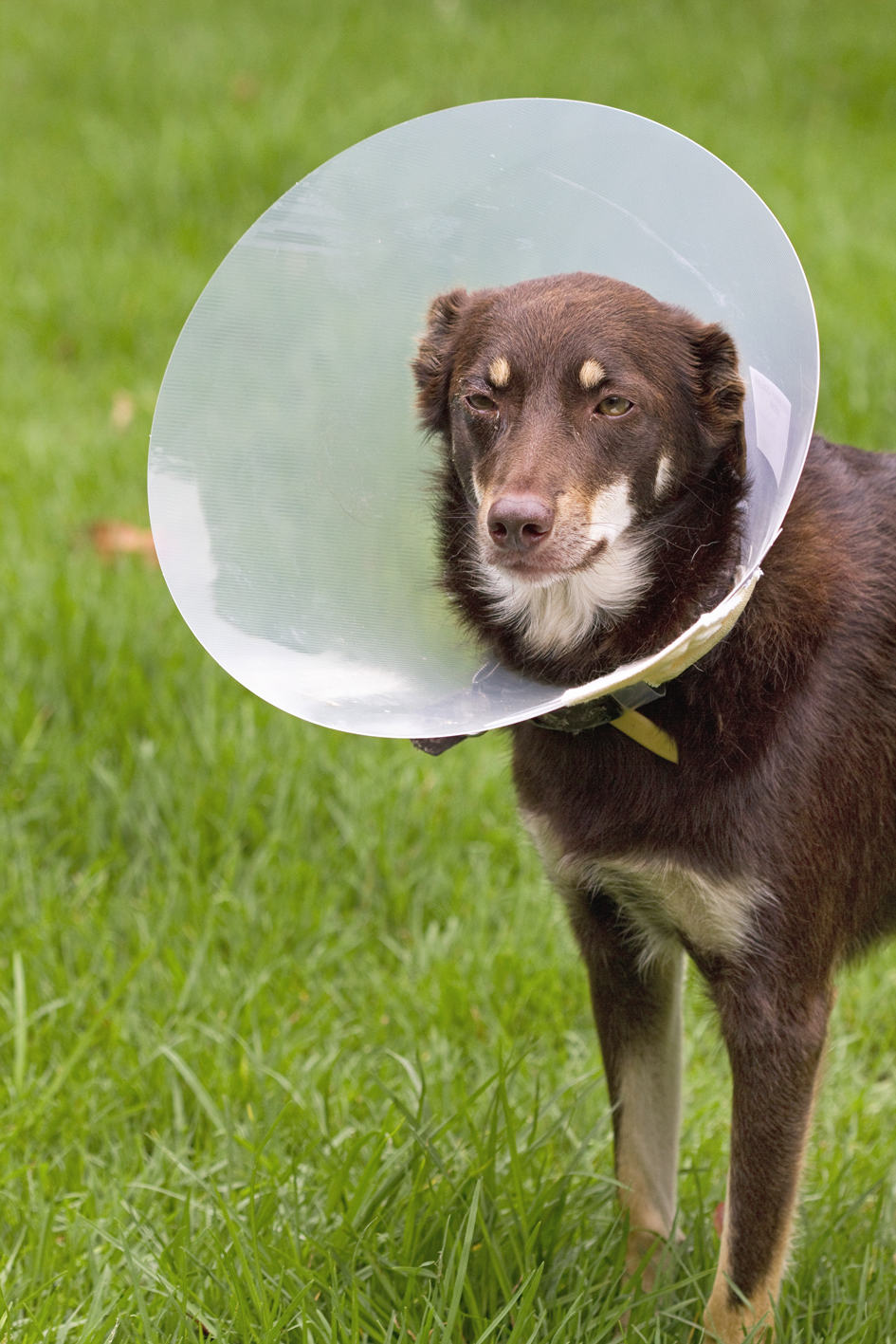 Week 21- Fur & Feathers One of our dogs developed and eye infection and was scratching at them to the point that she made one of them bleed so the vet confined her to a bucket. This stopped her scratching at them until the antibiotics and eye cream kicked in to do the job of healing them. I am happy to say her eyes have now healed and she no longer has to wear the bucket on her head,much to her relief